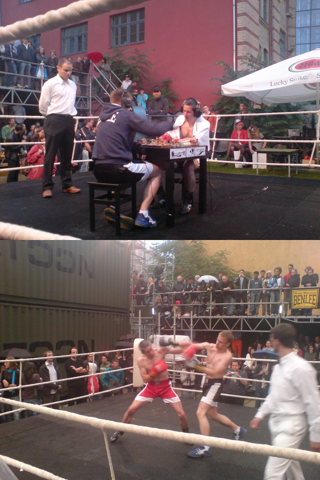 Combined photo of 2007 chess-boxing match.